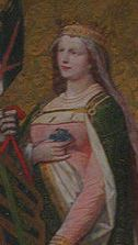 Catherine of Brunswick-Lüneburg, electress of Saxony